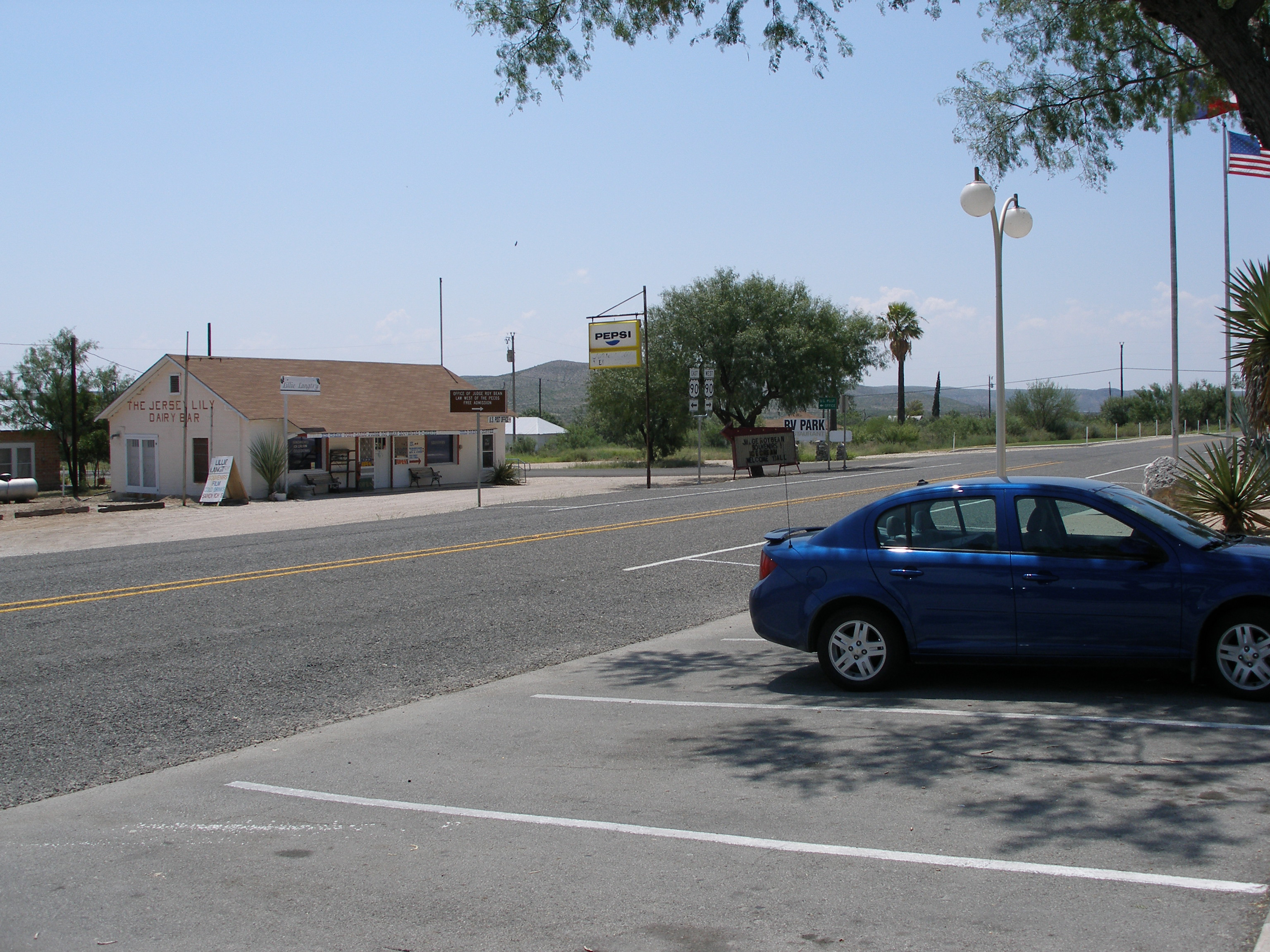 Main street that runs through Langtry, Texas, just south of US90. Photo taken September 2005.